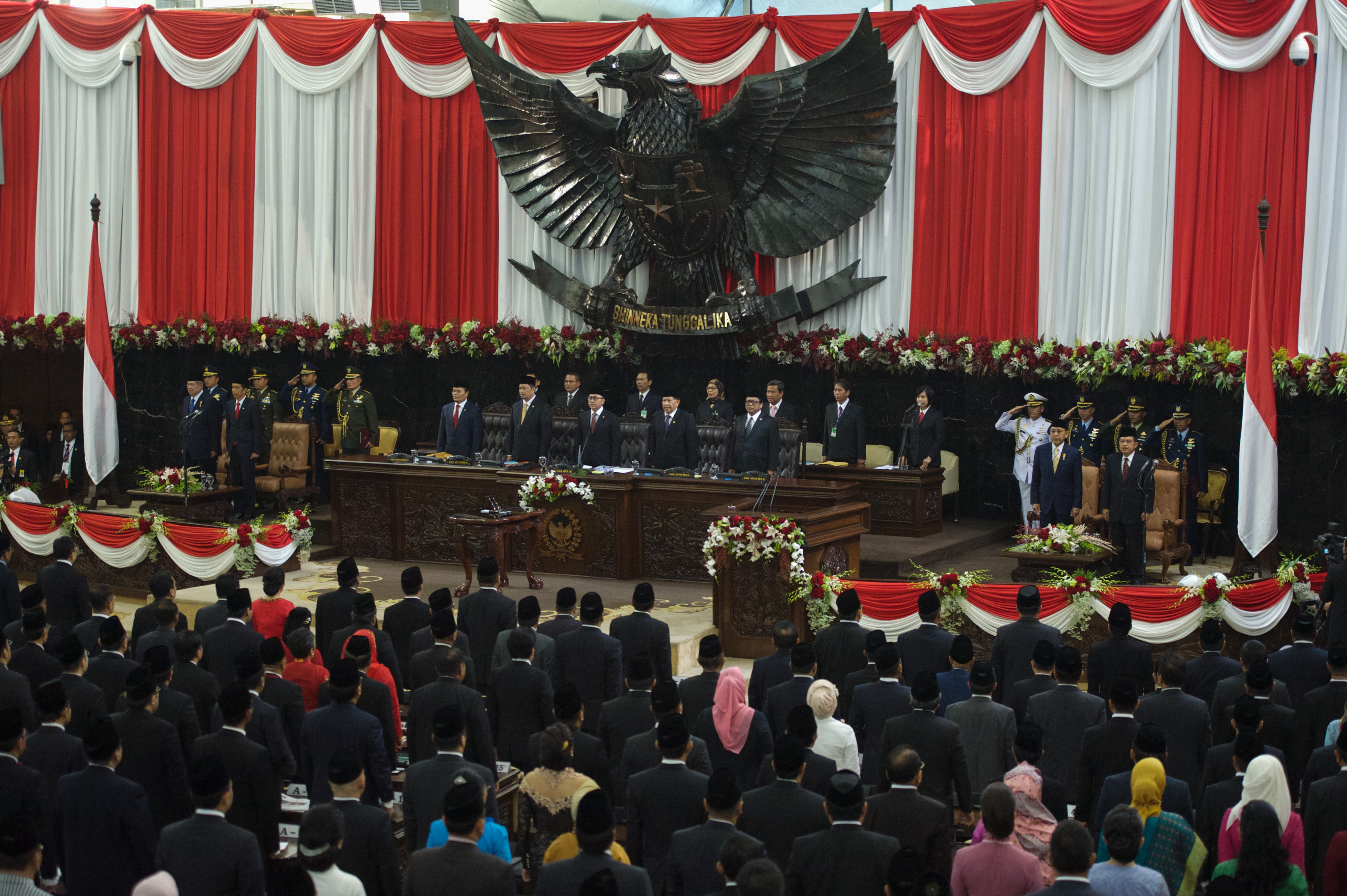 Indonesians stand and sing their national anthem at the inauguration of President-elect Joko Widodo in Jakarta, Indonesia, on October 20, 2014.